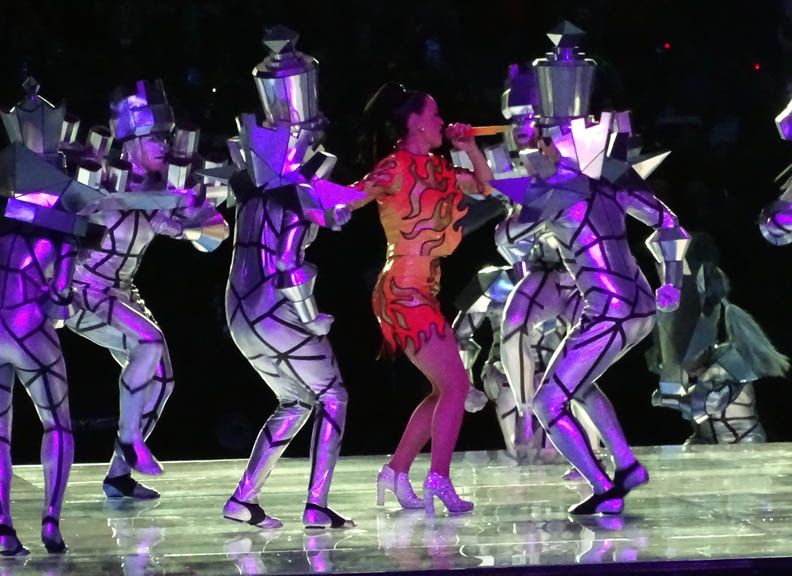 Katy Perry performing "Dark Horse" at halftime of Super Bowl XLIX at University of Phoenix Stadium in Glendale, Ariz., on Feb. 1, 2015.